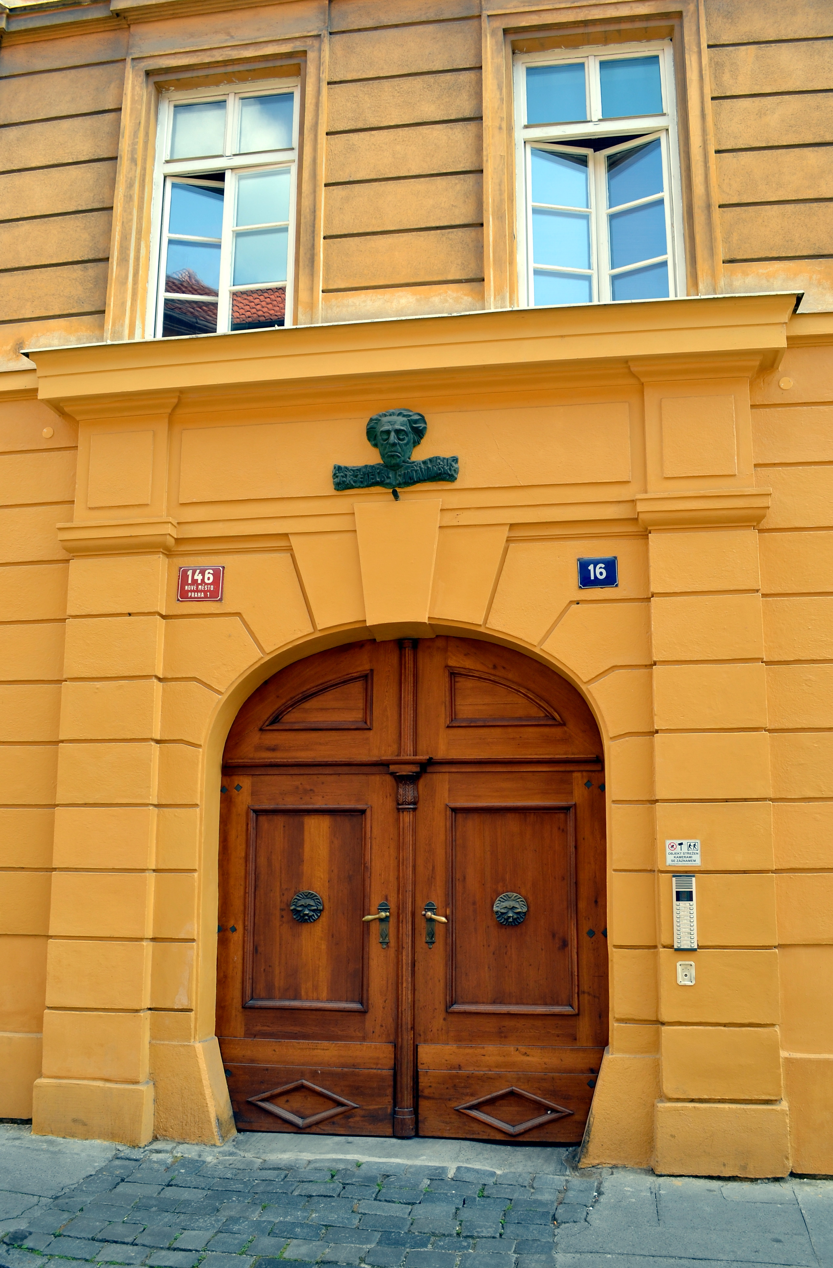 A cultural monument, Ostrovní 146/16, Nové Město, Prague 1, Czech Republic.